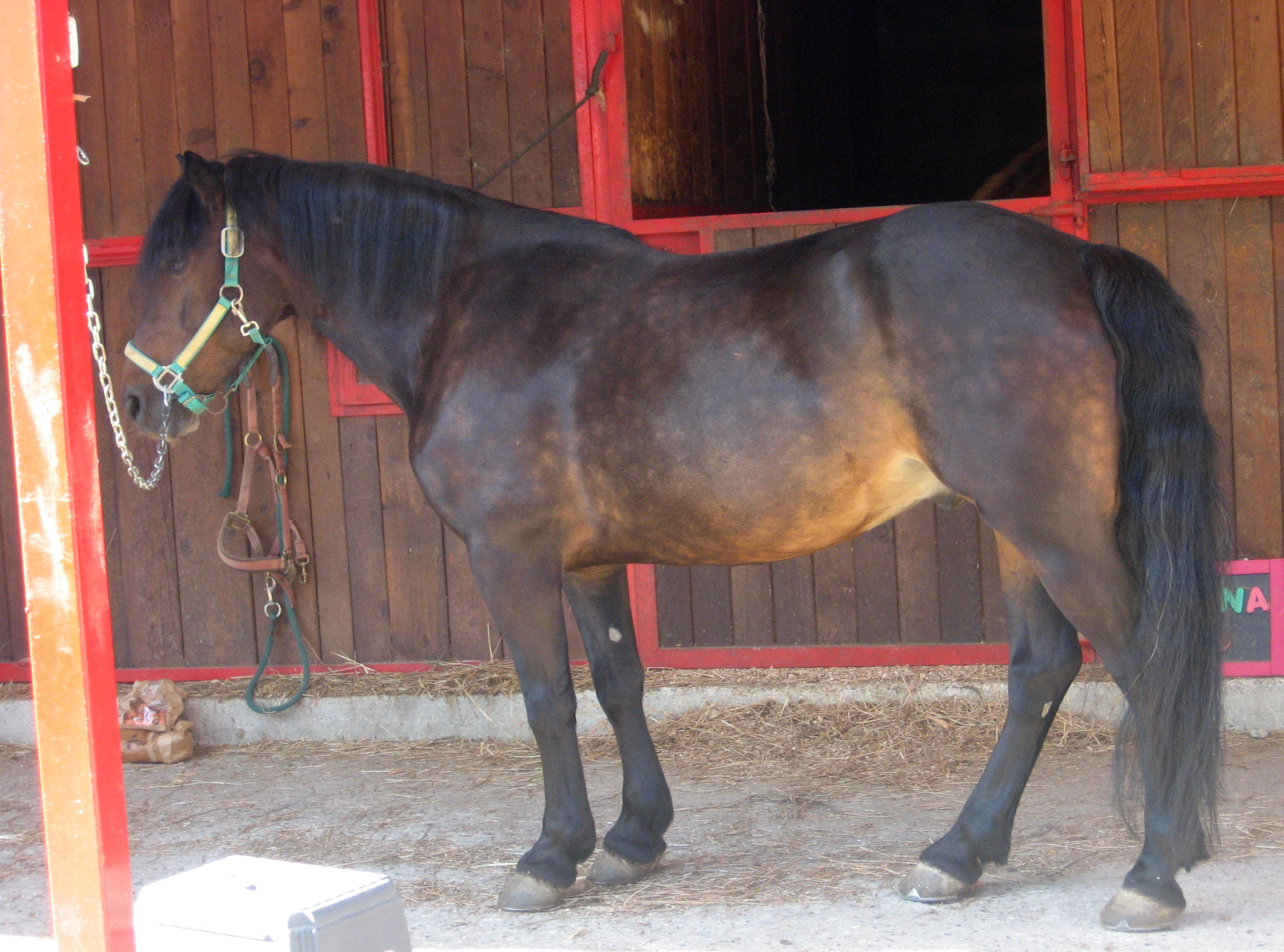 A "bardigiano" pony (Thor, born 1996). Photo shot at "Scuderia La Bellaria", Novi Ligure (AL)